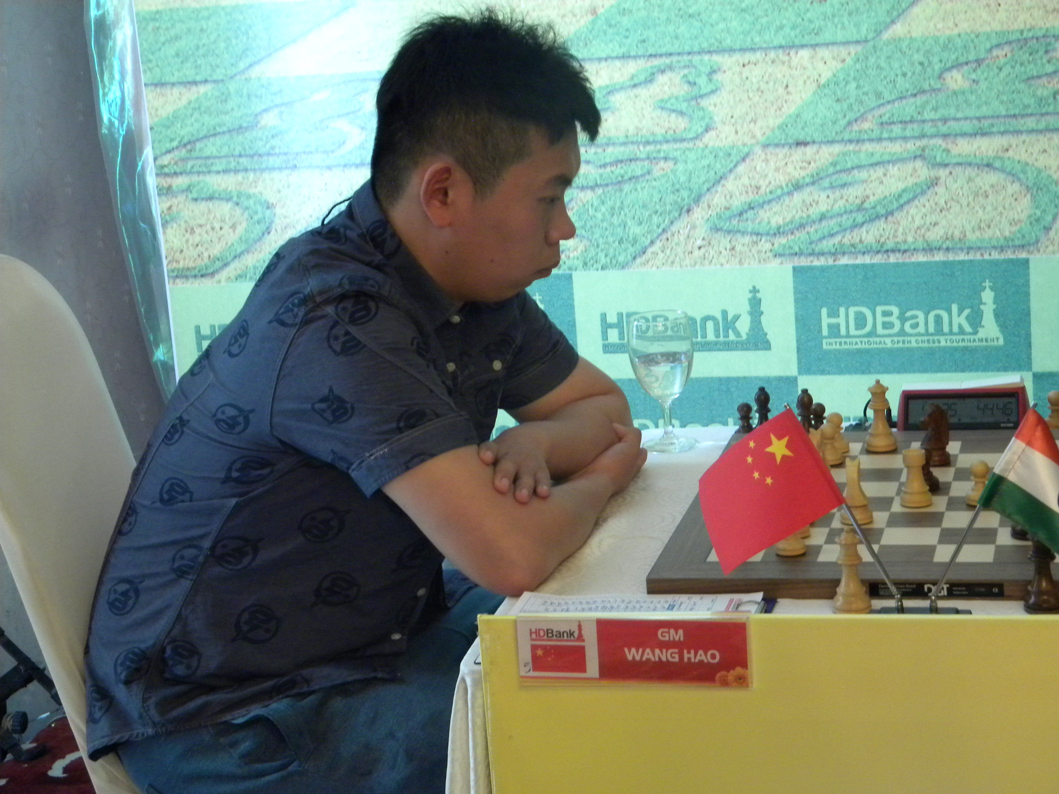 Wang Hao in round 3, HDBank chess tournament 2017